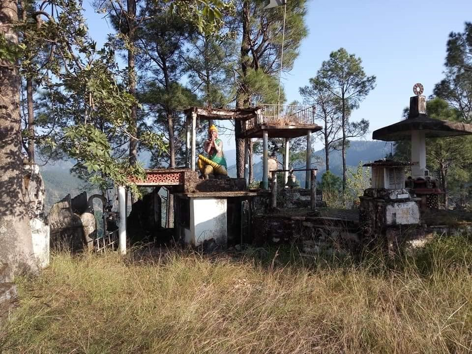 Fort of Katuri King